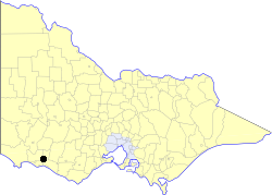 Location of the Borough of Koroit within Victoria.